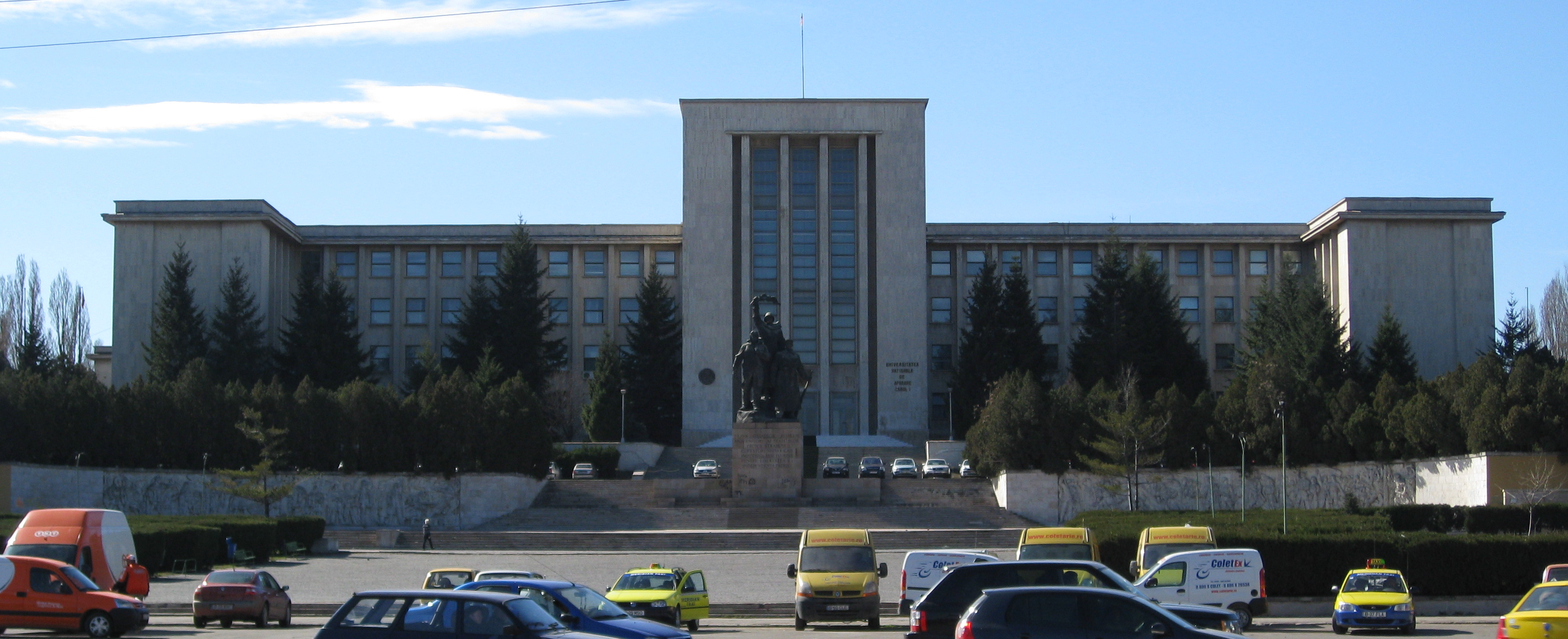 Bucharest Military Academy